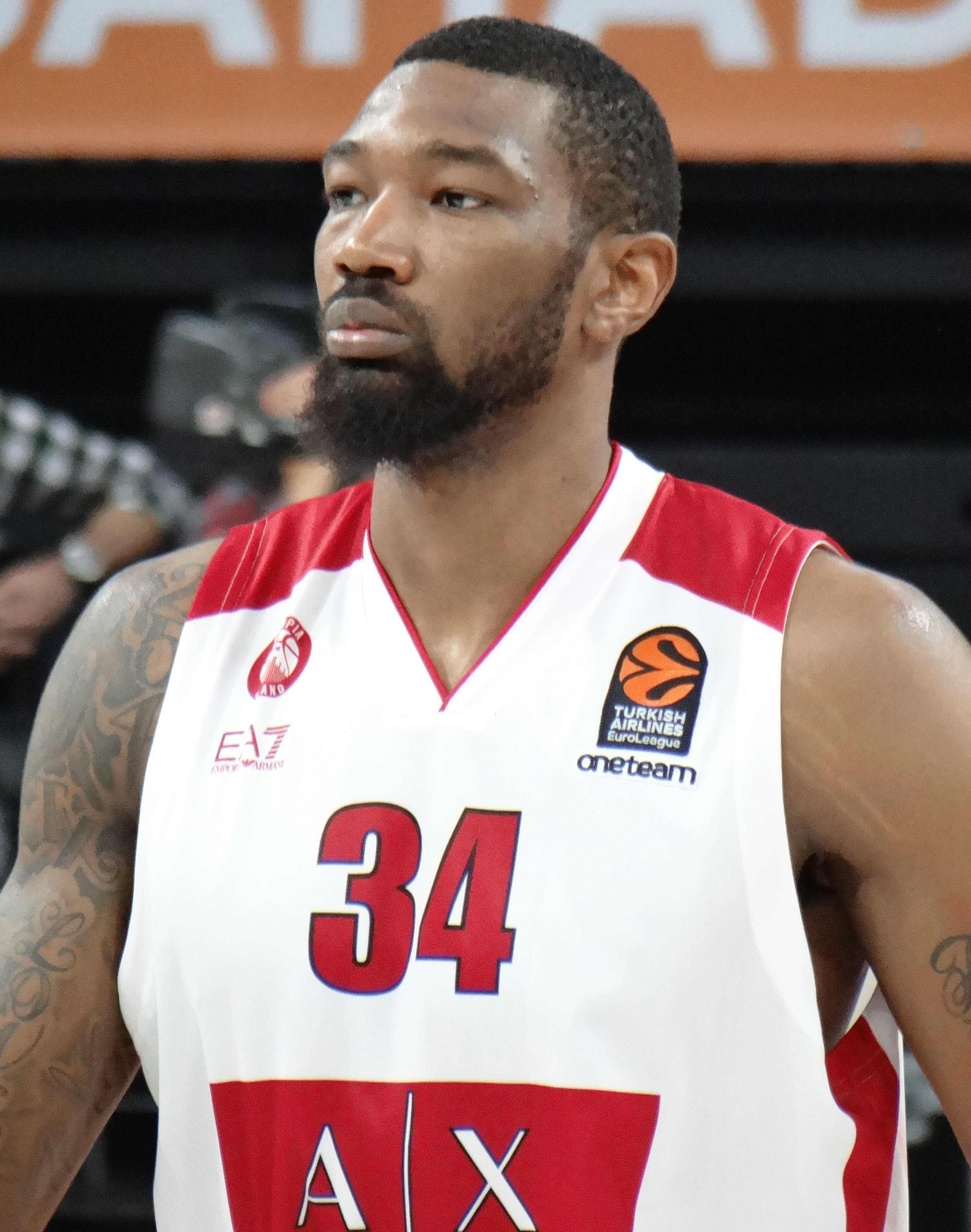 Cory Jefferson 34 AX Armani Exchange Olimpia Milan 20171130